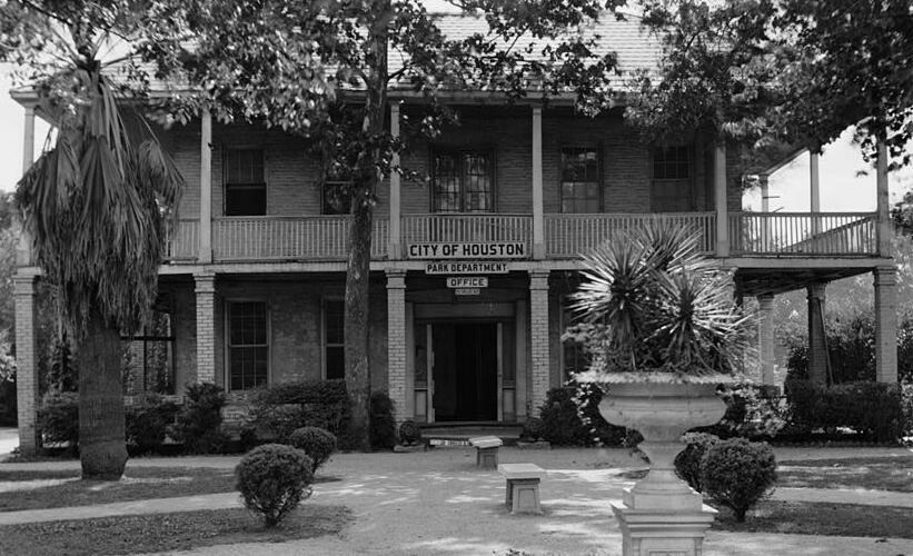 Kellum-Noble House, Sam Houston Park, 212 Dallas Avenue, Houston, Harris County, TX